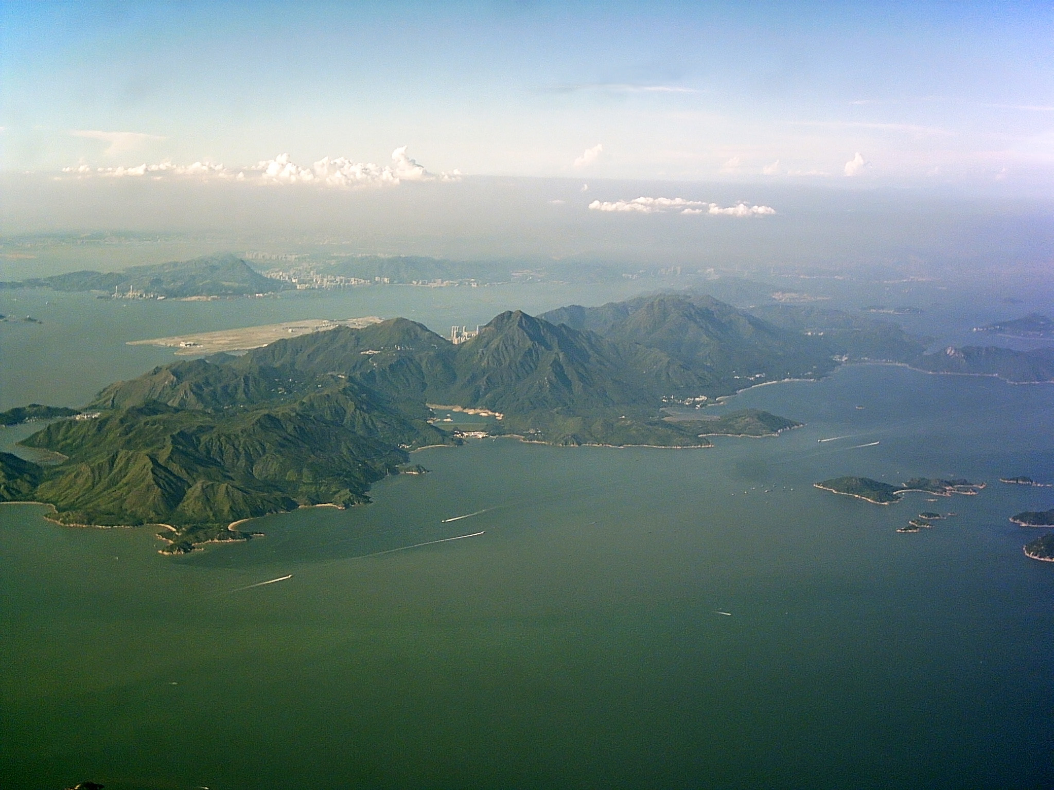 The mountainous Lantau Island, stretching from the centre left to up right, Soko Islands in the centre right, Hei Ling Chau directly above the Chi Ma Wan Peninsula, Peng Chau to its left. Chek Lap Kok Airport north of Lantau Island, Tuen Mun directly above. Shenzhen can be seen through the thick haze.